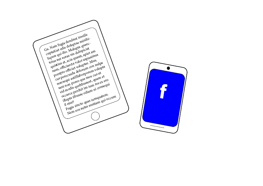 The PNG prensents two types of digital media devices